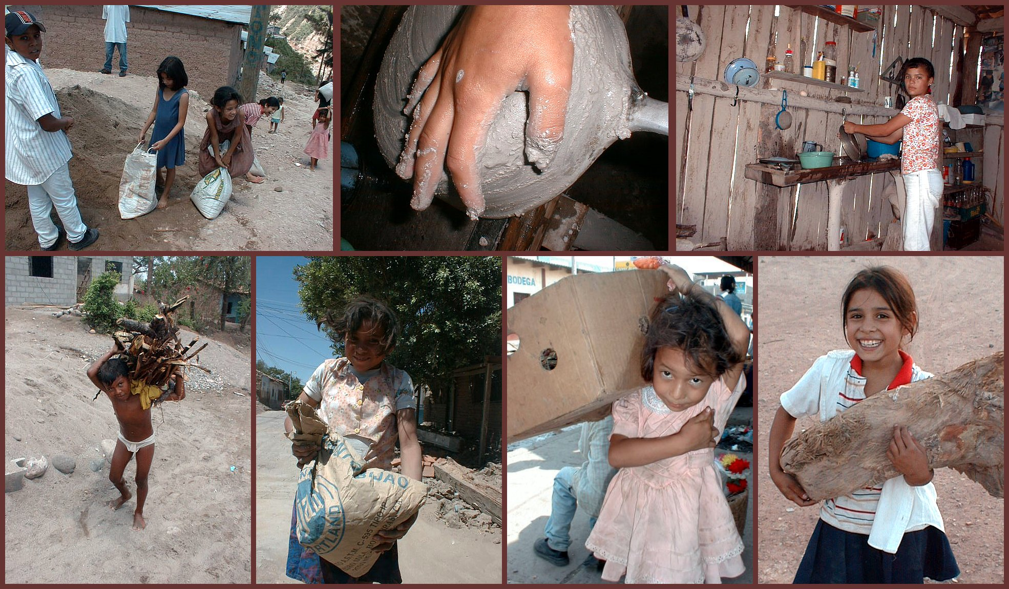 Honduran Workers 1999 Description: The upperleft and lowerright photos come for Tegucigalpa, while the other's are from the Choluteca area. Camera Info: OLYMPUS SR83 Digital Contact creator at - This image is also available there under the directory link "Composite Group 01" as a multi-layer .xcf file.